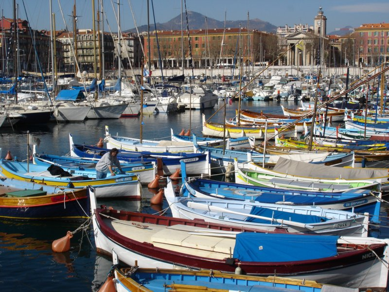 Harbor of Nice, France